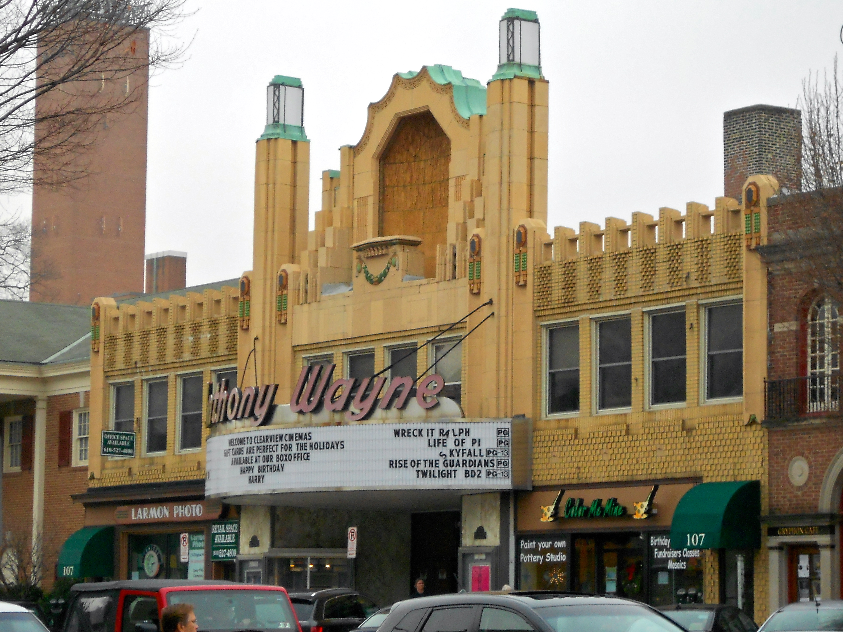 Downtown Wayne Historic District on the NRHP since September 5, 2012. The district is roughly bounded by Louella Ct., West Ave., and S. Wayne Ave., in Wayne, Radnor Township, Delaware County, Pennsylvania. This is the Anthony Wayne Theater, possible the best known building in the district